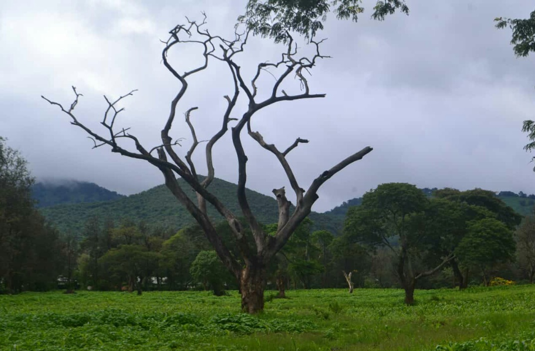 This was taken during the rainy season and it was so nice.